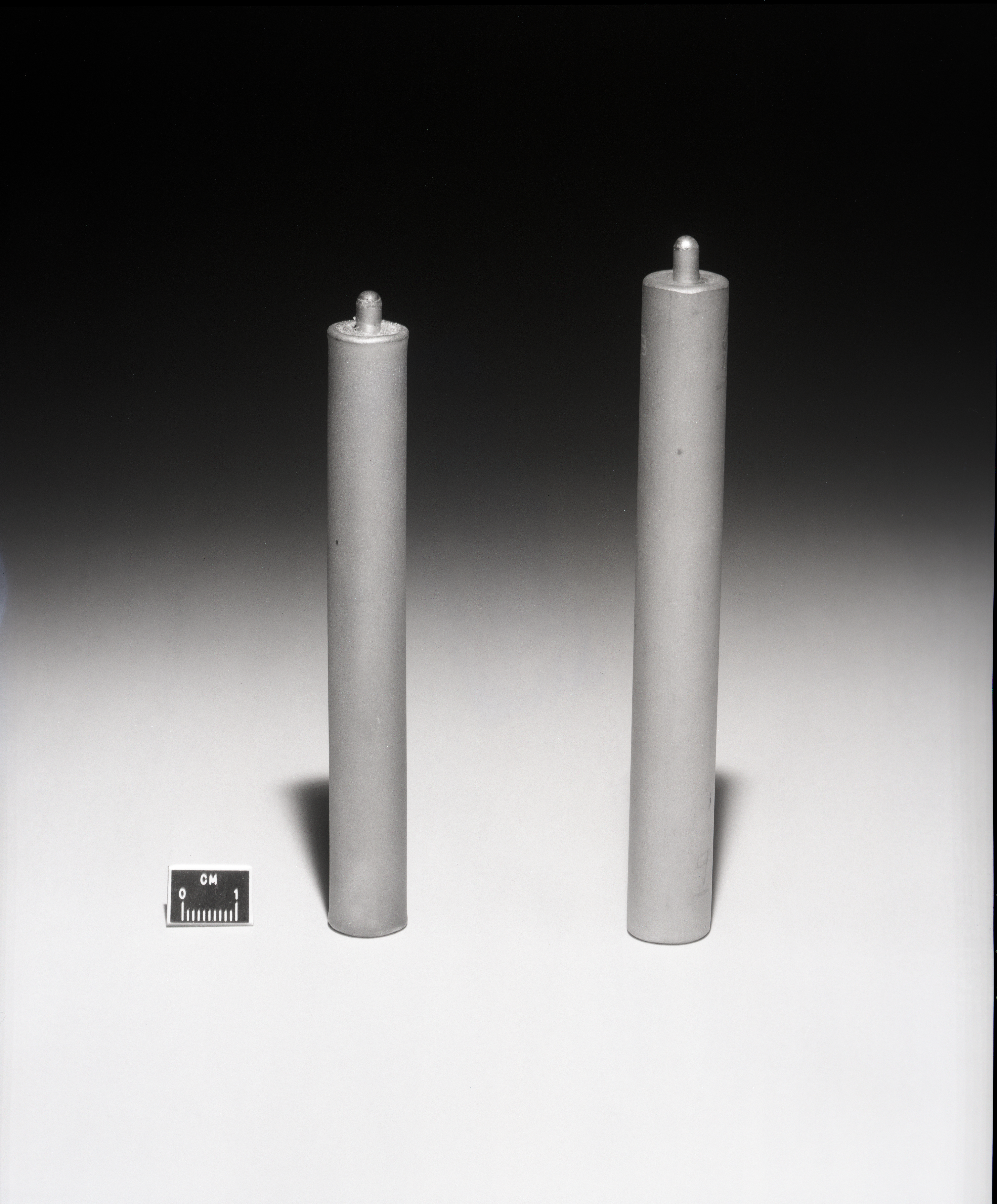 Scope and content: The original finding aid described this as: Capture Date: 4/24/1975 Photographer: MARTIN BROWN Keywords: Larsen Scan